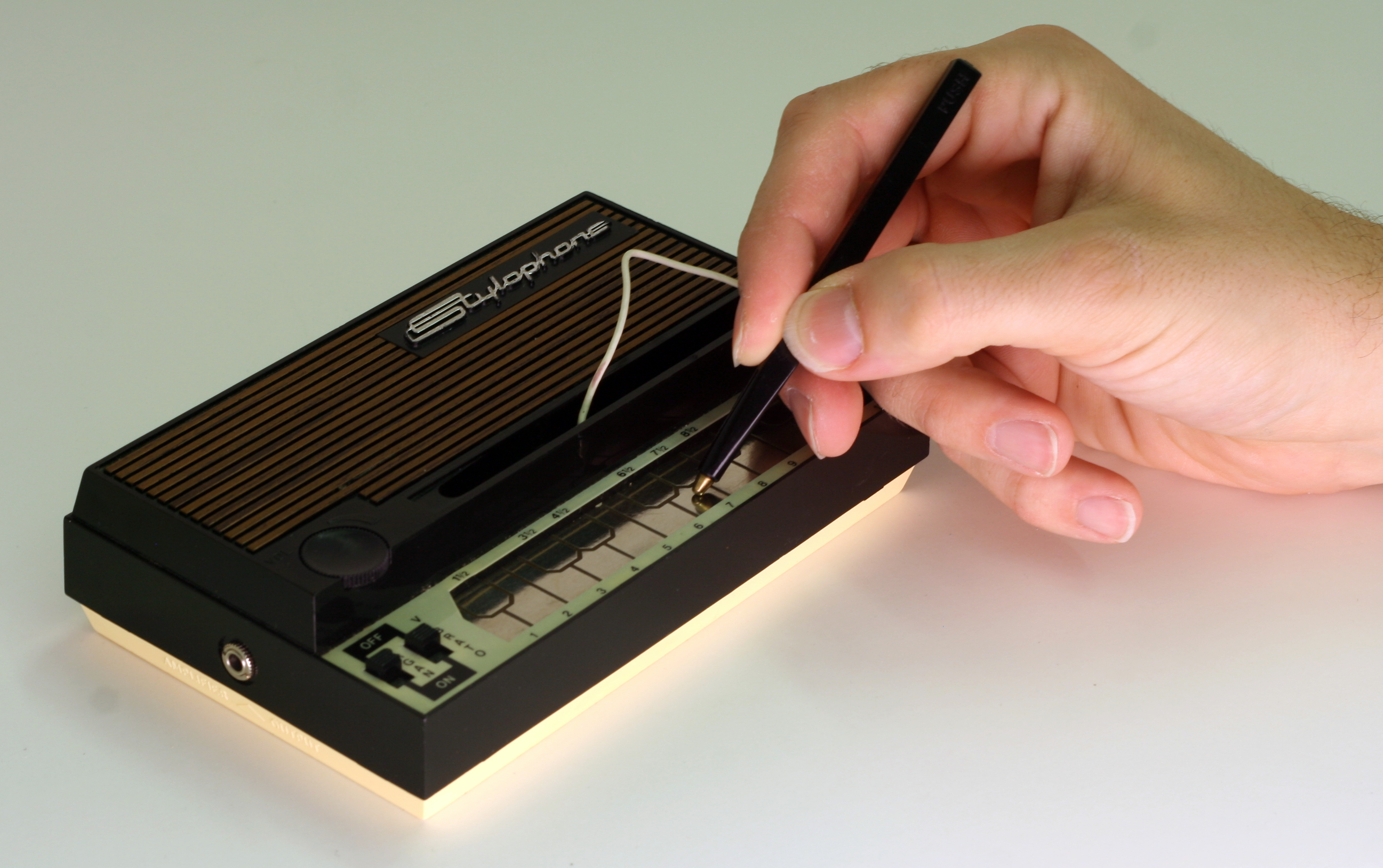 Photograph of an original 1960's stylophone being played.